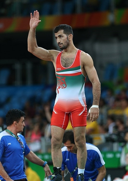 2016 Summer Olympics, Greco-Roman Wrestling 66 kg - Shmagi Bolkvadze v Omid Norouzi